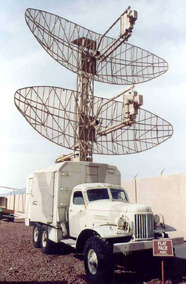 A U.S. military photo taken from "Information presented on this website is considered public information and may be distributed or copied - unless otherwise noted. Use of appropriate byline/photo/image credits is requested."